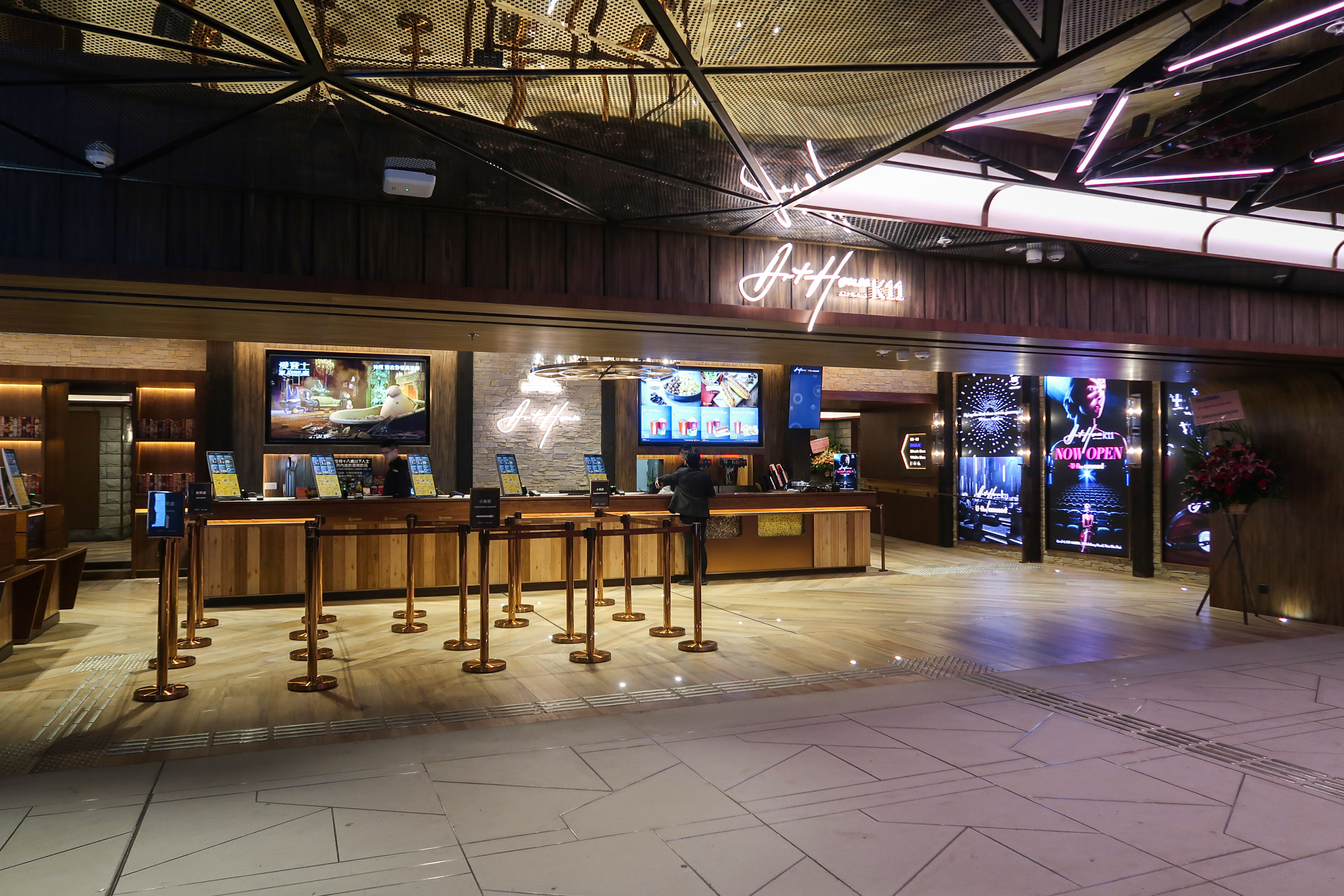 K11 ArtHouse